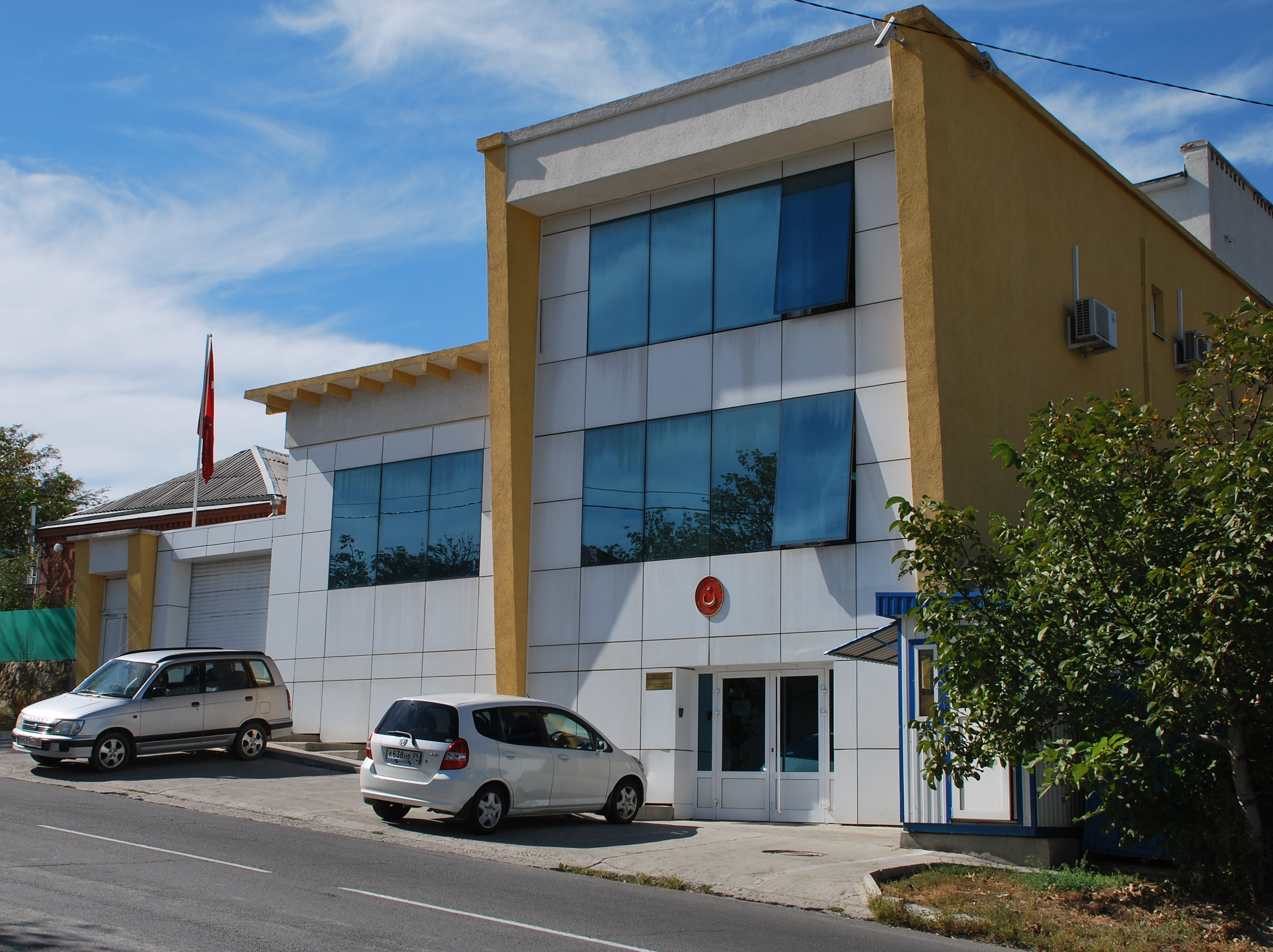 Consulate-General of Turkey in Novorossiysk